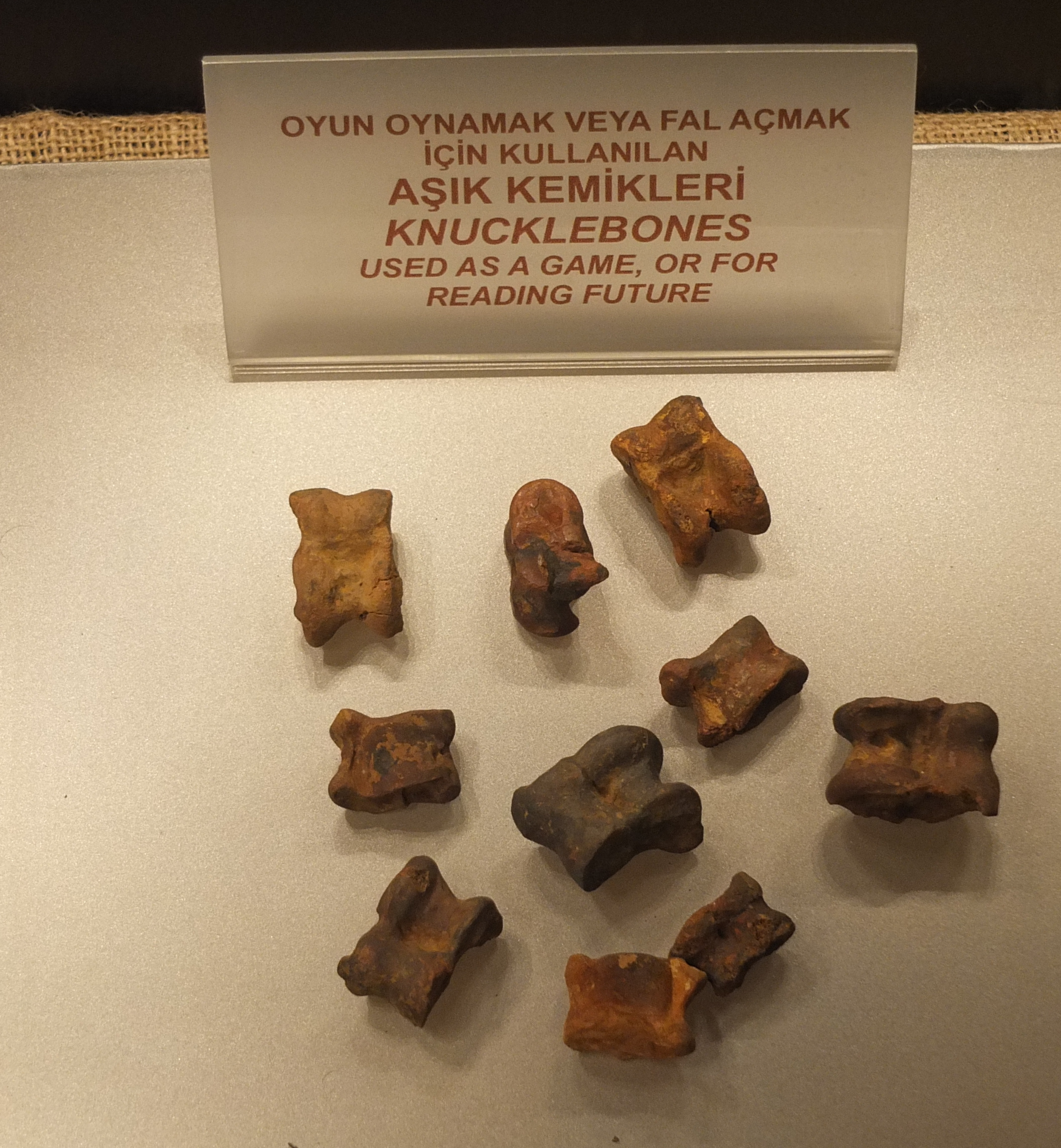 Knuckle bones in the archeological museum at Kyrenia Castle in Girne, Cyprus.